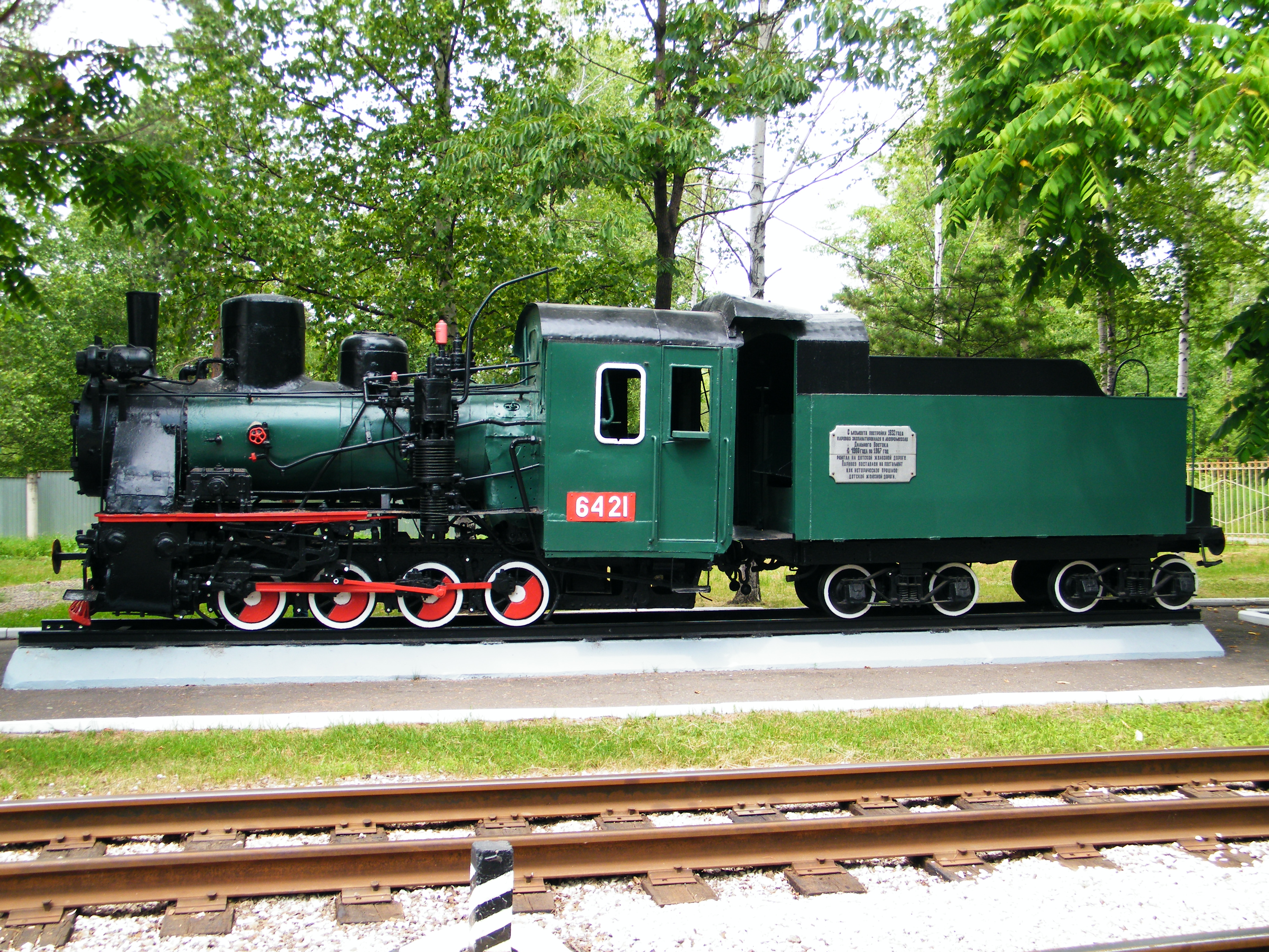 Malaya Dalnevostochnaya, Khabarovsk